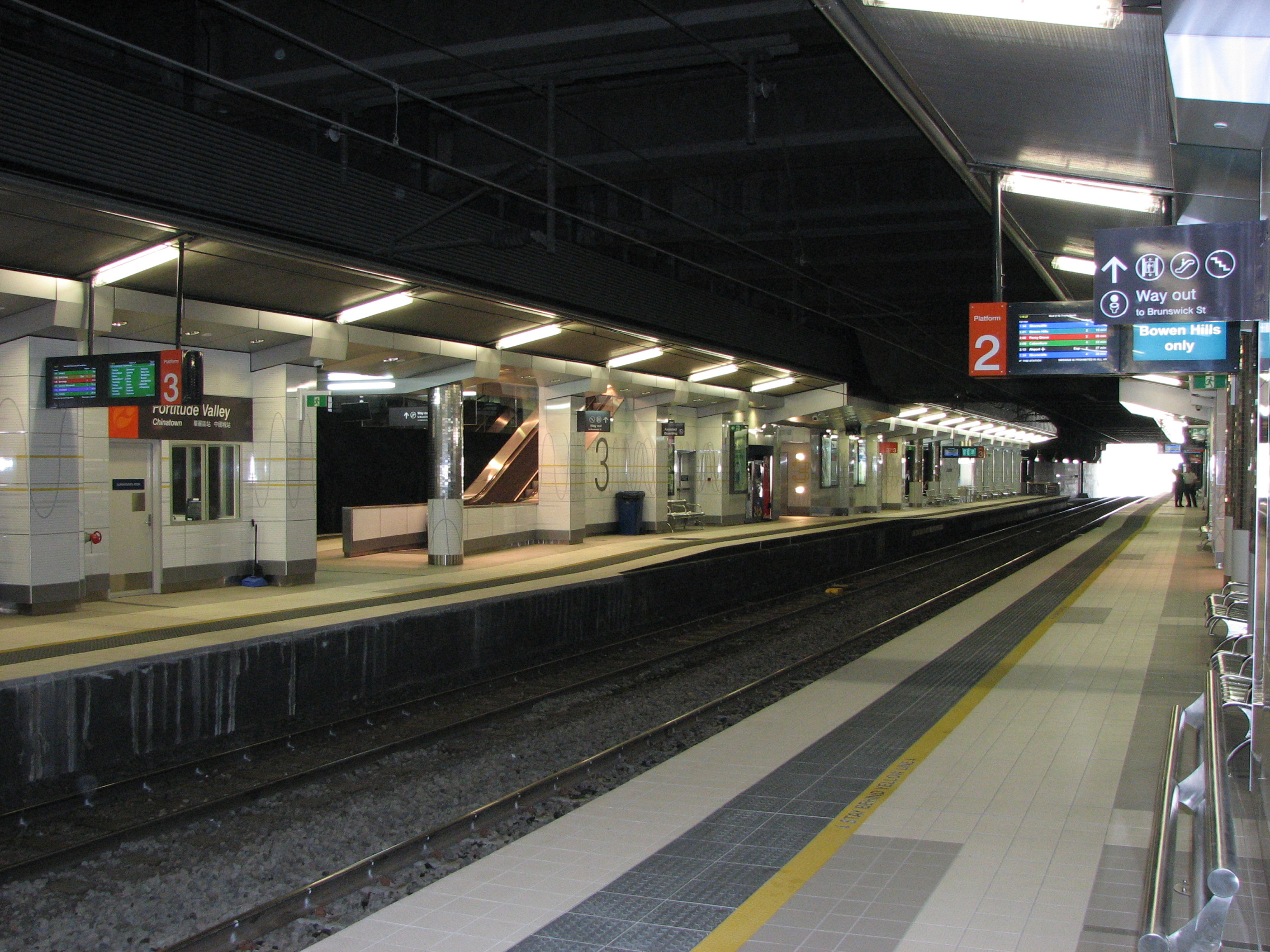 Platforms 2 & 3 of QR's Fortitude Valley station on Brisbane's Citytrain network. Looking away the City.